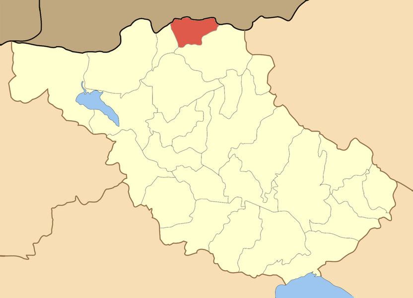 Locator map of Aggistro township in Serres perfecture in Greece.